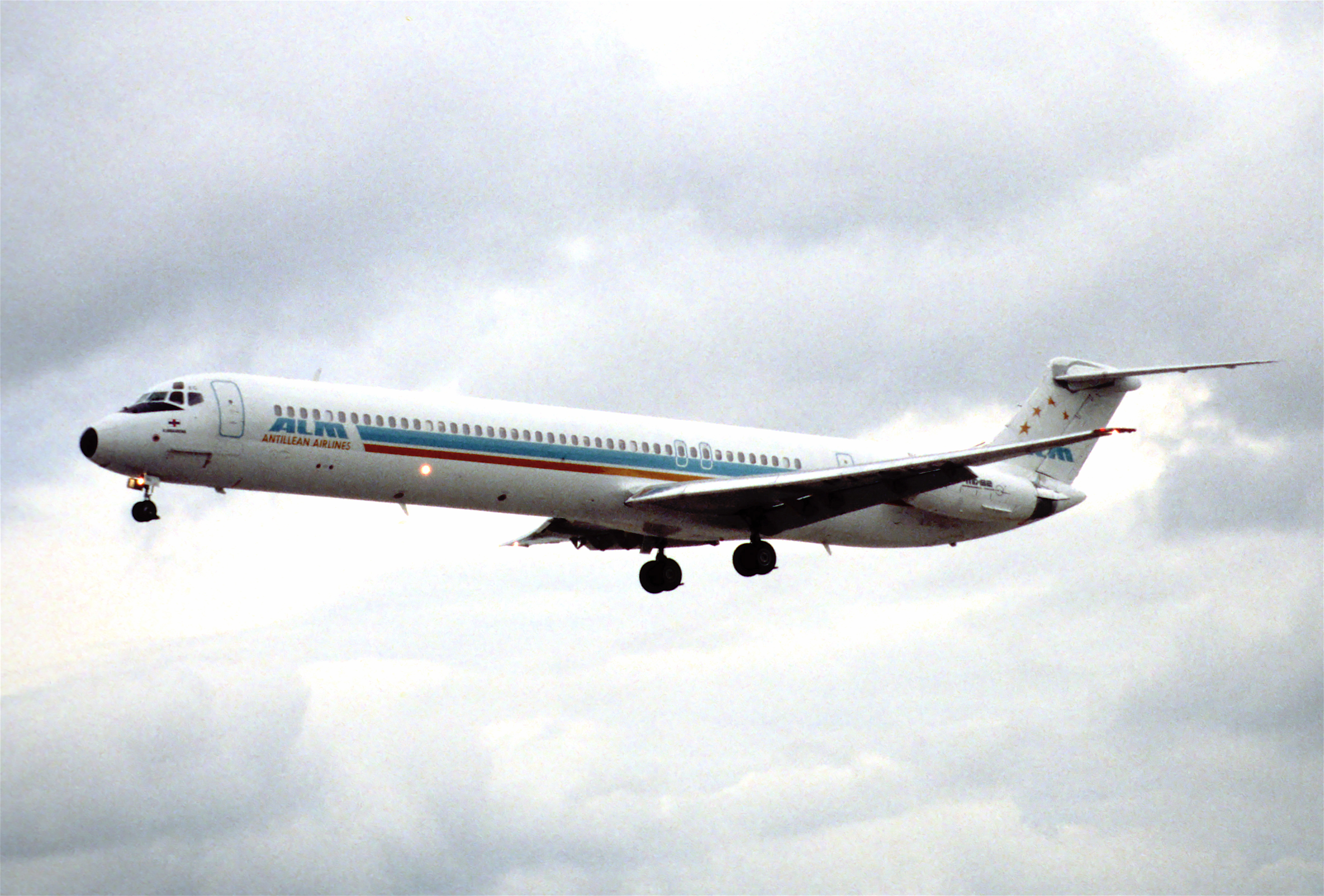 8ha - ALM Antillean Airlines MD-82; PJ-SEG@MIA;24.01.1998